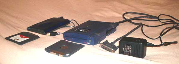 Zip drives. Photo by User:Hephaestos Feb. 1, 2004 GFDL